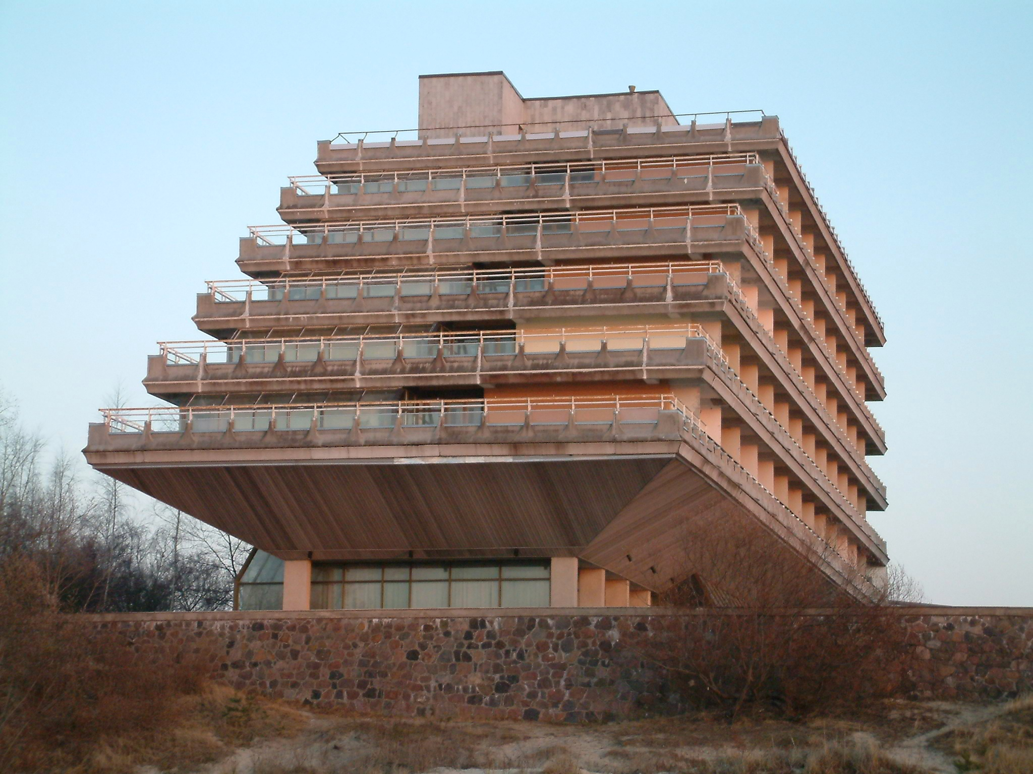 Jūrmala - Riviera meets Totalitarism (now the site of Baltic Beach Hotel, which has renovated this building)